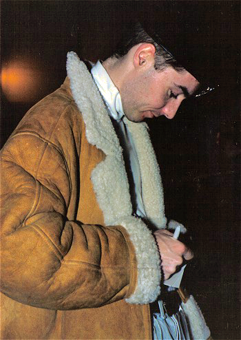 Roddy Frame of Aztec Camera in Los Angeles, California - 1987